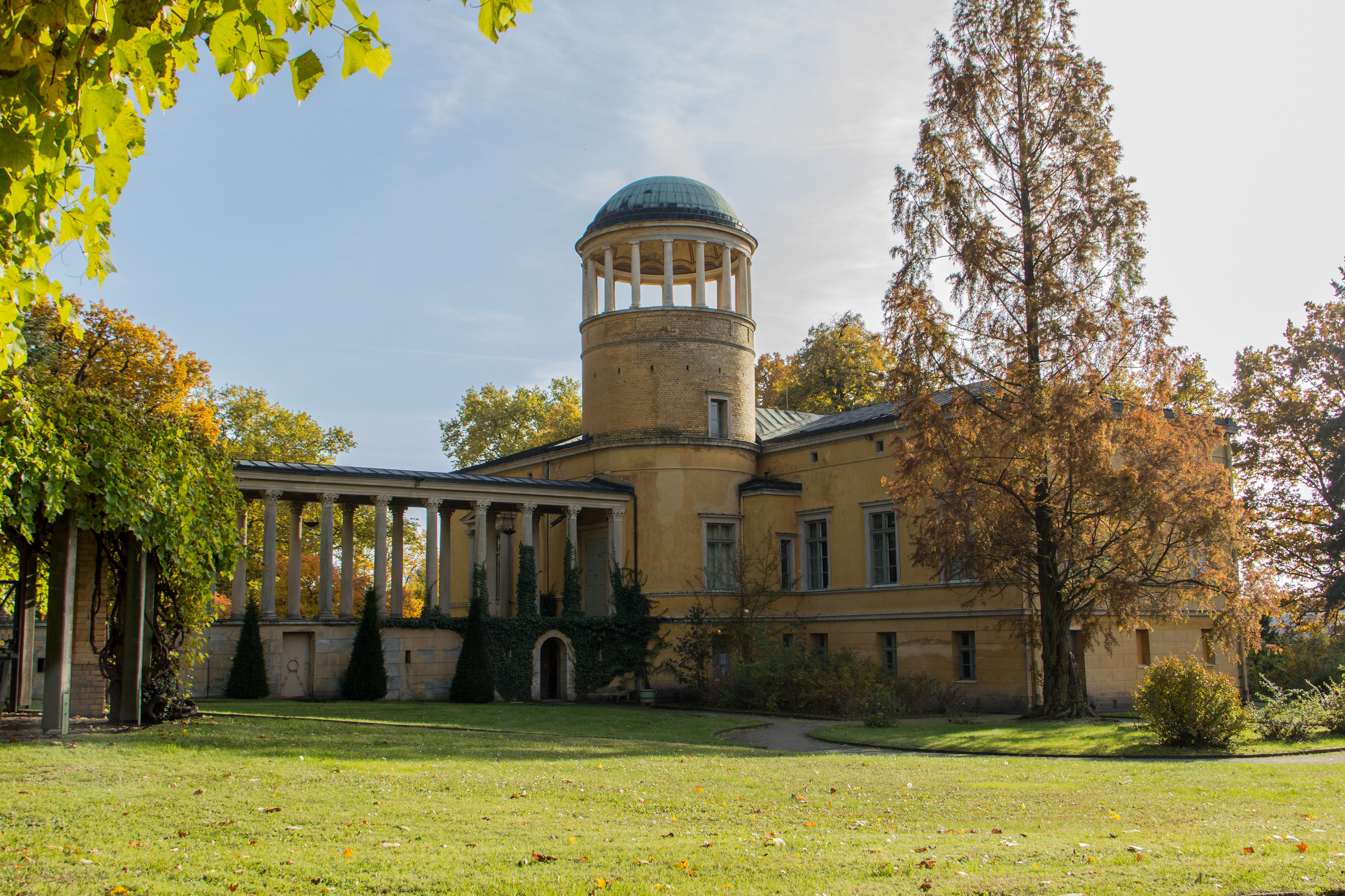 Lindstedt manor in Potsdam. Photographed from north.